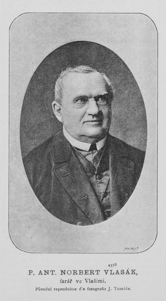 Portrait of Antonín Norbert Vlasák (1812-1901), Czech priest and regional historian of Vlašim, Central Bohemia.